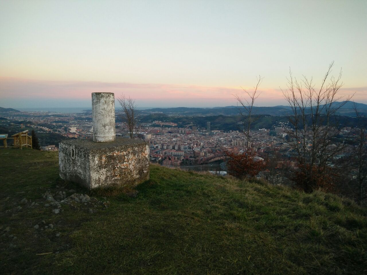 Triangulation station in the summit of Arnotegi, in Bilbao (Basque Country)